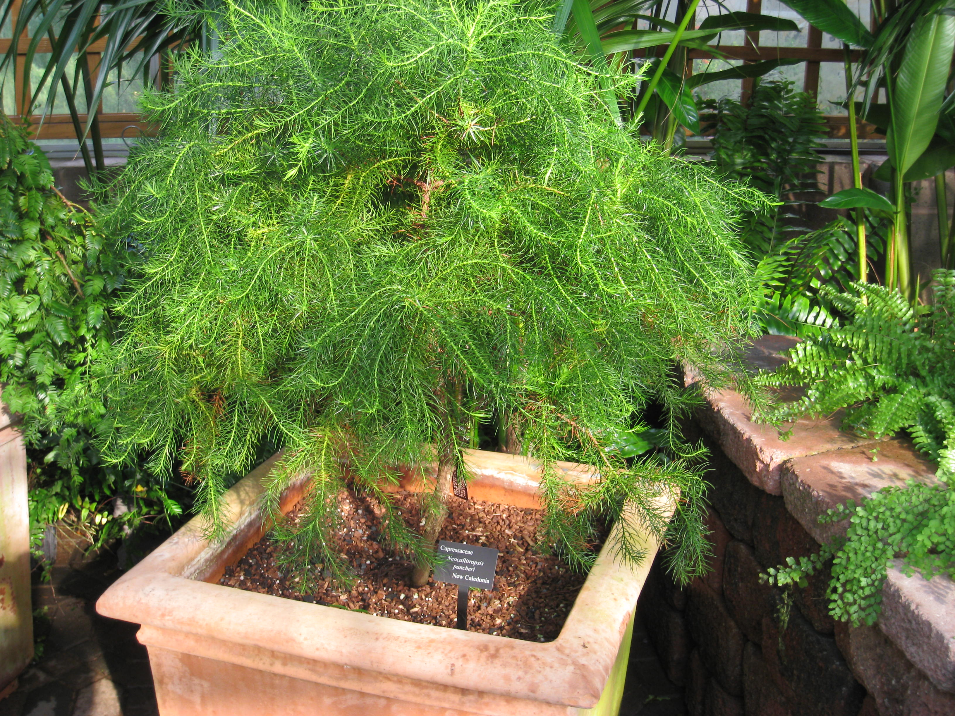 Neocallitropsis pancheri, juvenile plant. Specimen in the Atlanta Botanical Garden, Atlanta, Georgia, USA.